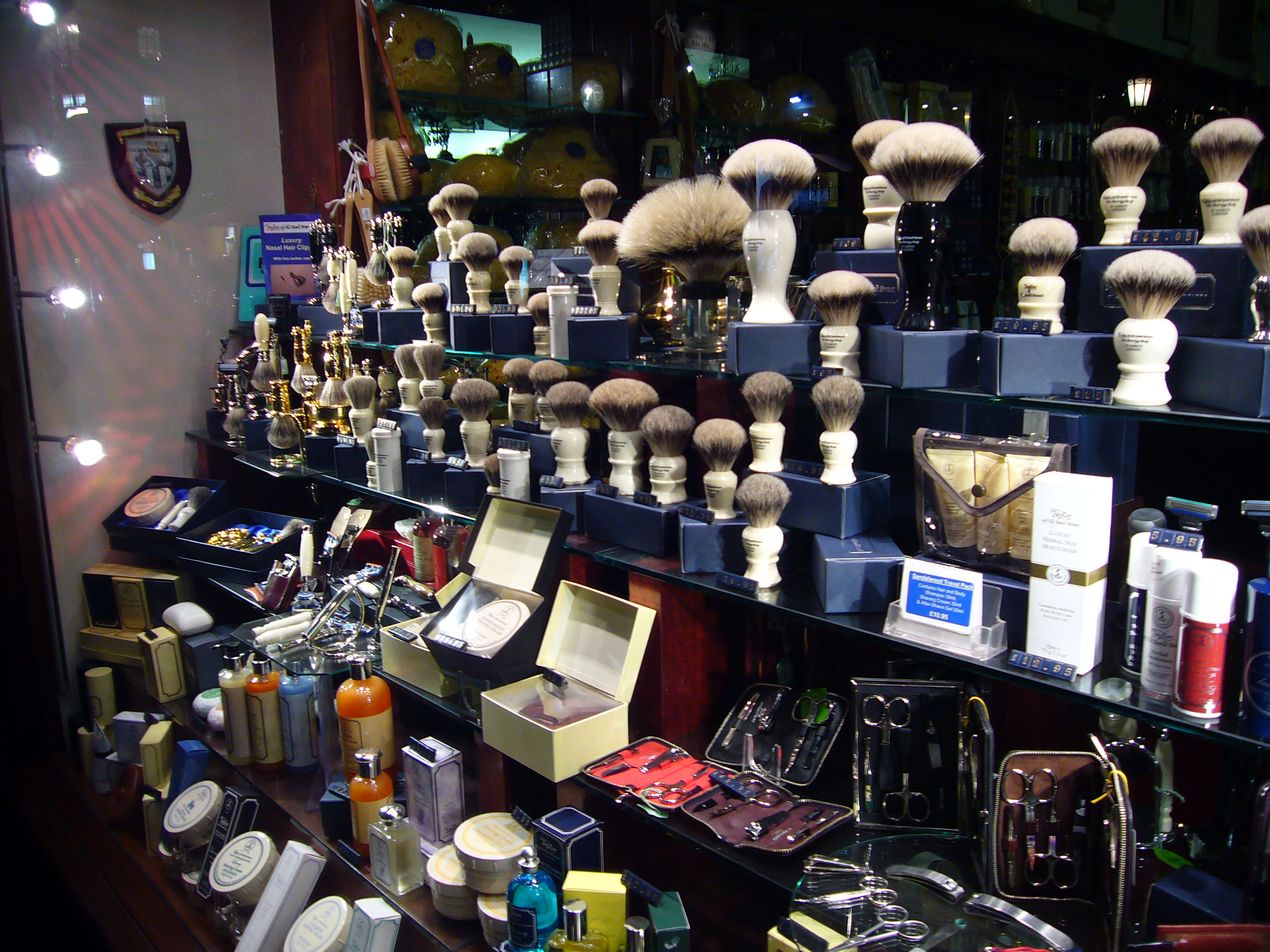 Taylor of Old Bond Street products